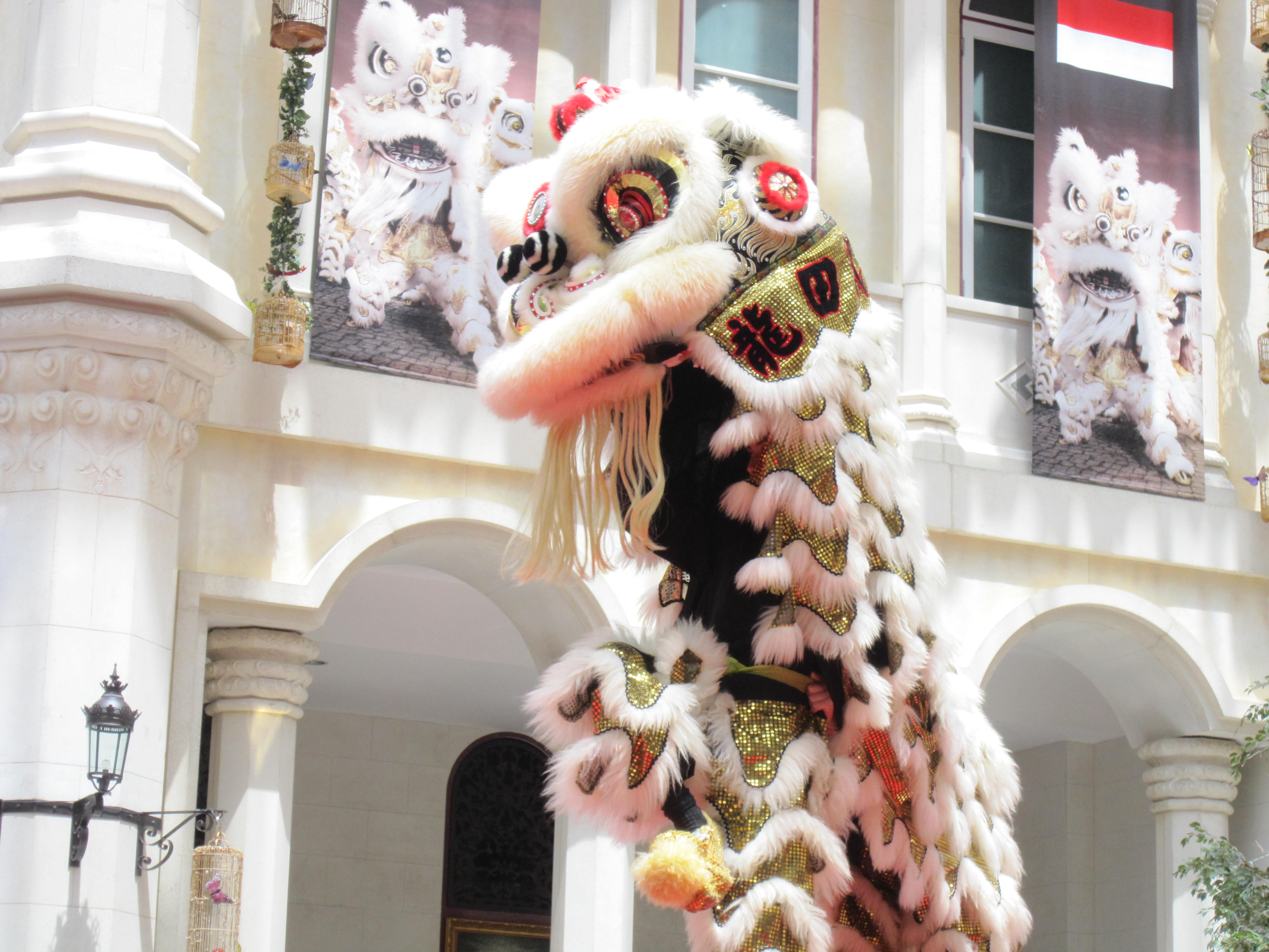 MGM Macau International Lion Dance Championship 2010